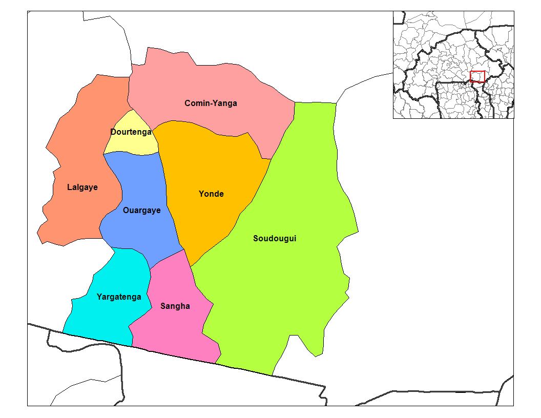 This map has been uploaded by Osiris fancy from to enable the Wikimedia Atlas of the World. Original uploader to was Rarelibra. Osiris fancy is not the creator of this map. Licensing information is below. Map of the departments of Koulpelogo province in Burkina Faso. Created by Rarelibra 03:25, 30 September 2006 (UTC) for public domain use, using MapInfo Professional v8.5 and various mapping resources.